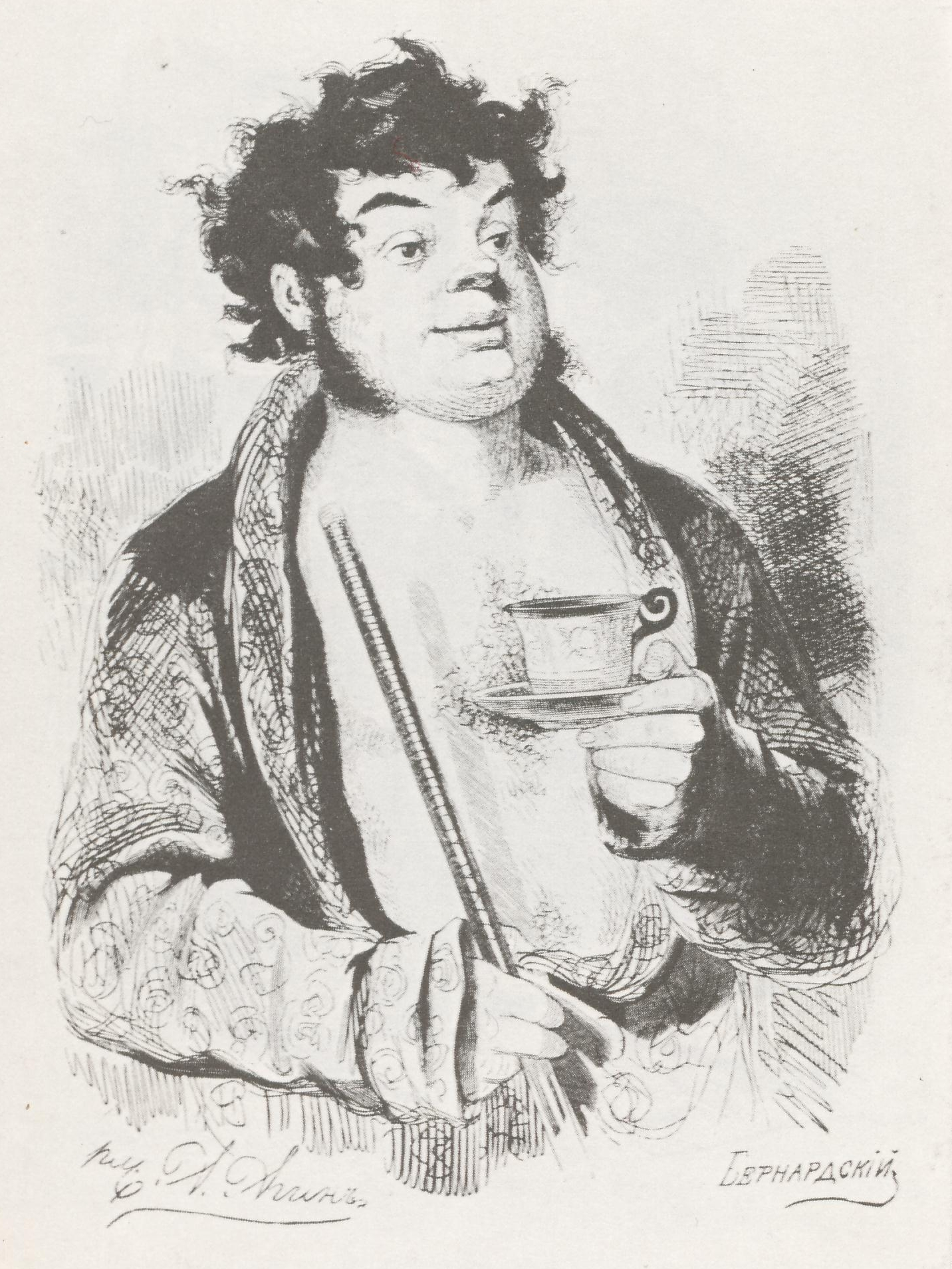 Nozdryov. Illustration for Nikolai Gogol's Dead Souls